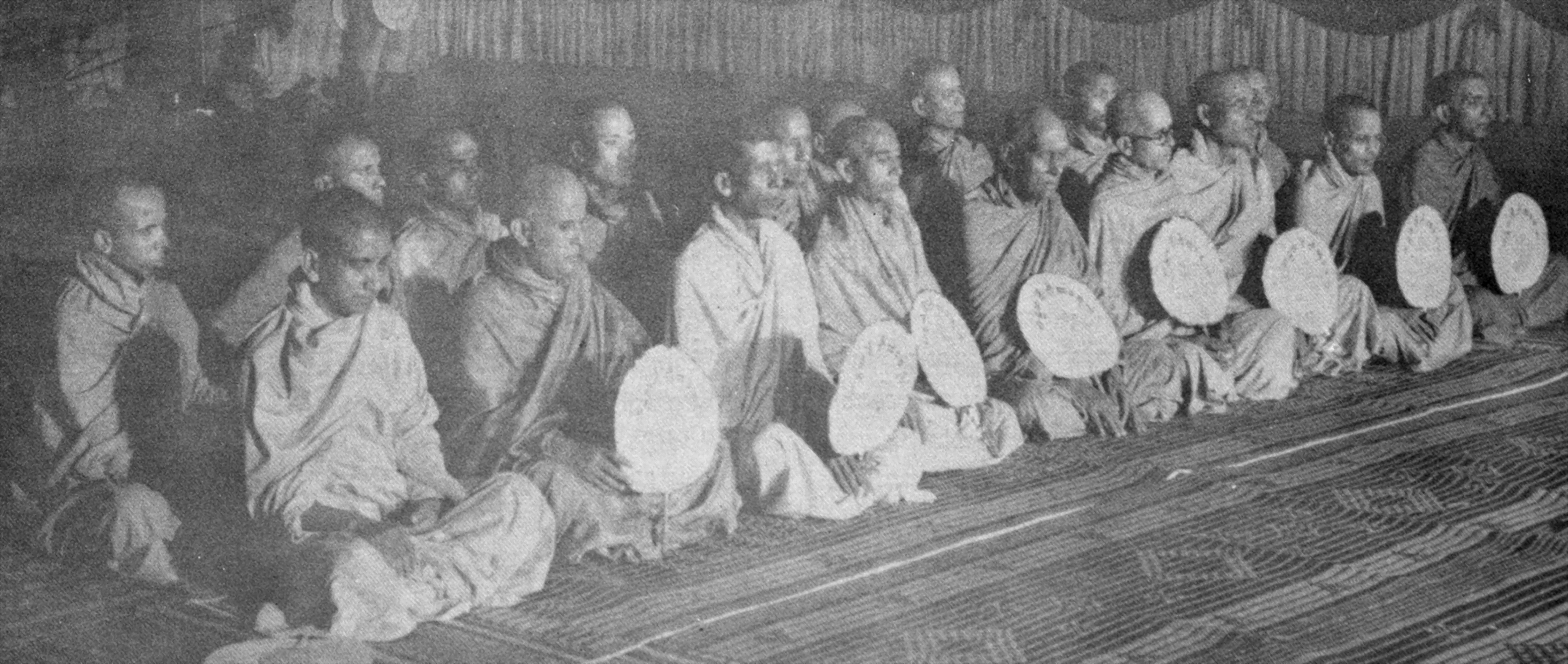 Delegates from the Chittagong Buddhist Association, during the 6th buddhist council in Rangoon.